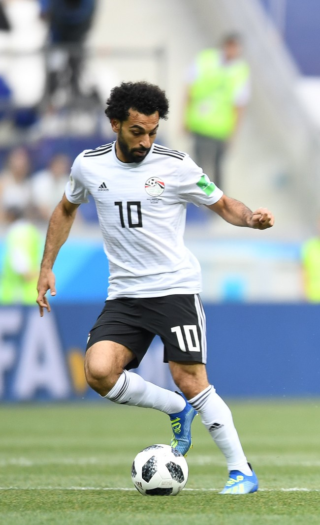 Mohamed Salah